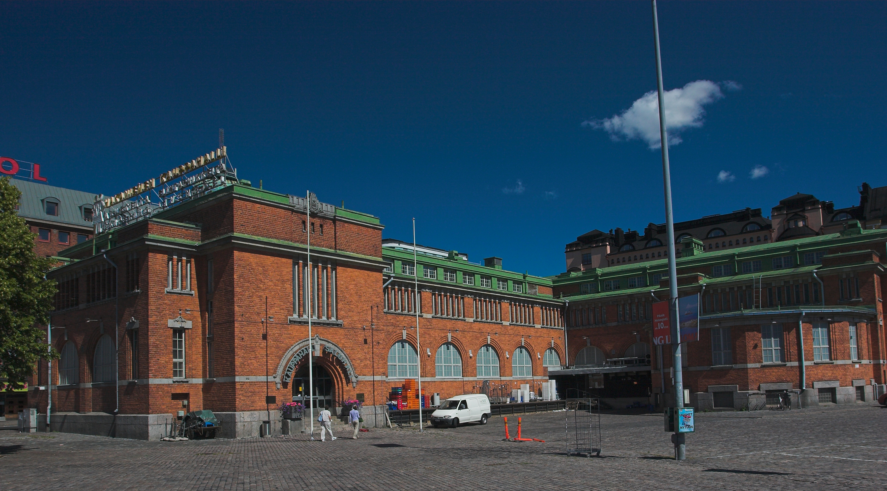 Old market hall in Hakaniemi, Helsinki. Photo by Thermos.